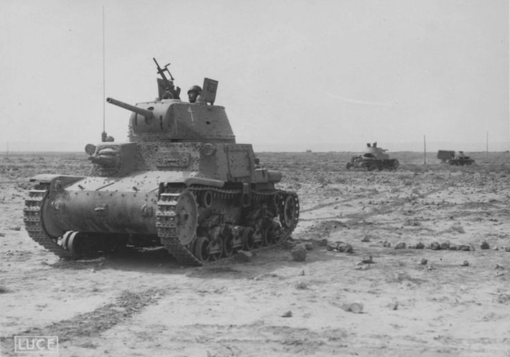 Italian M13/41 tank